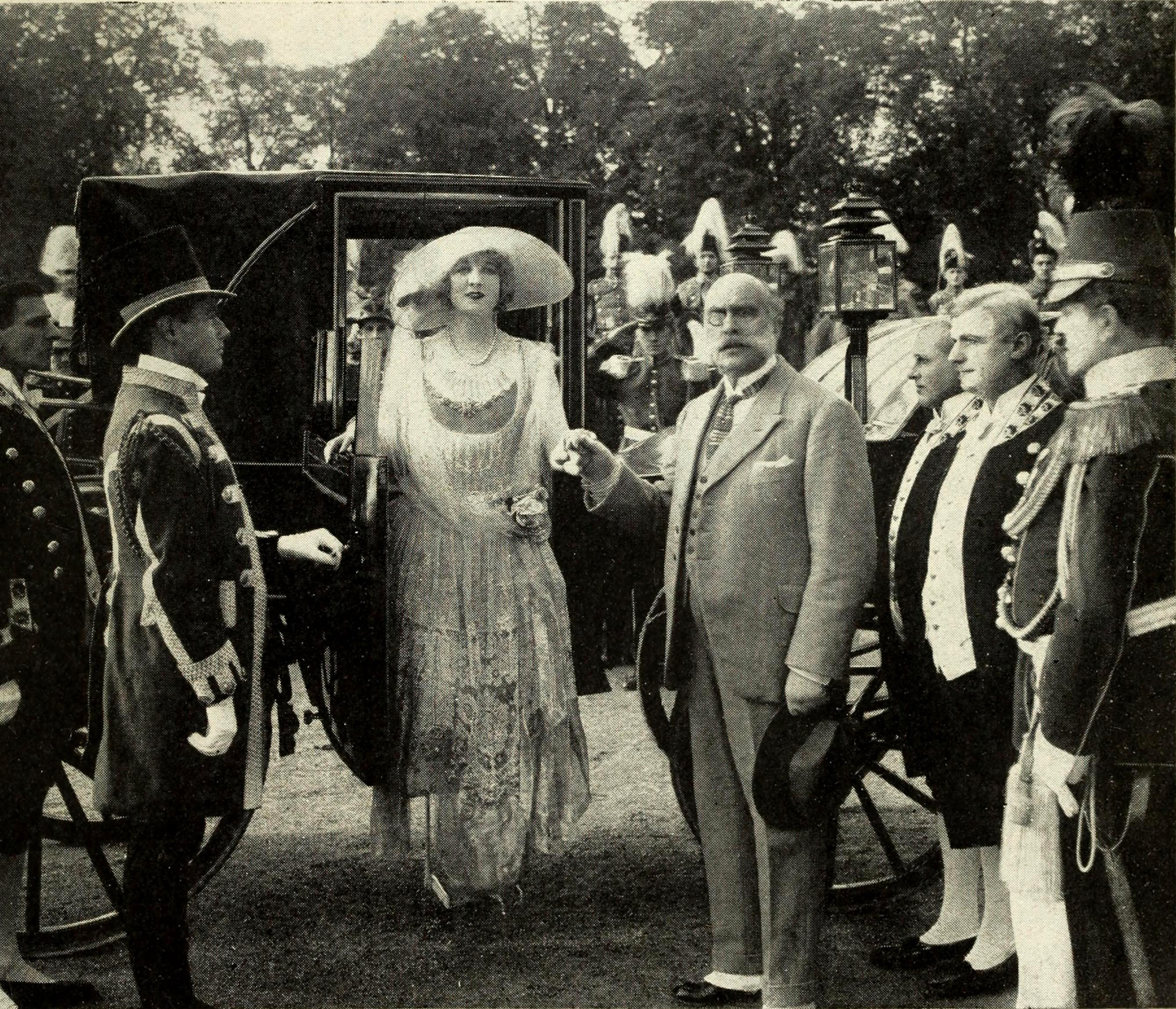 Photogram. Center : Hughette Duflos as Princesse Aurore.